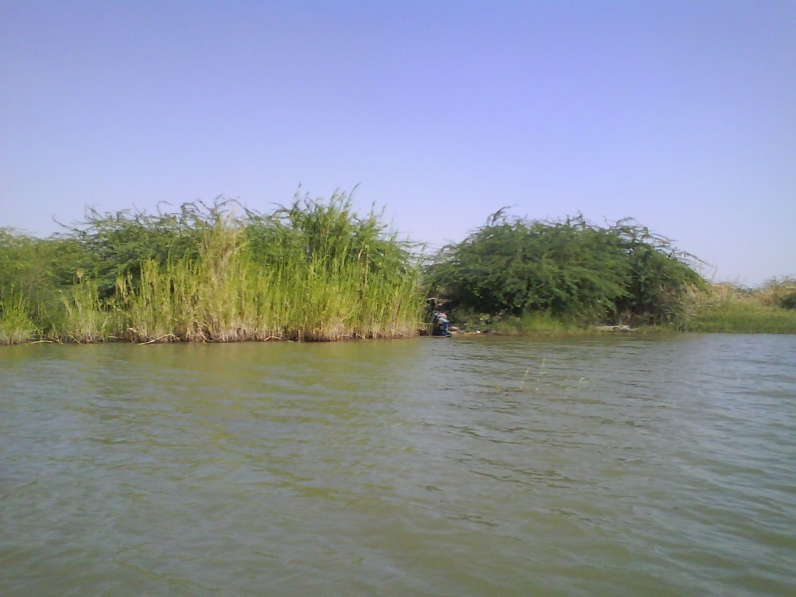 Village Algamalab (landscape)